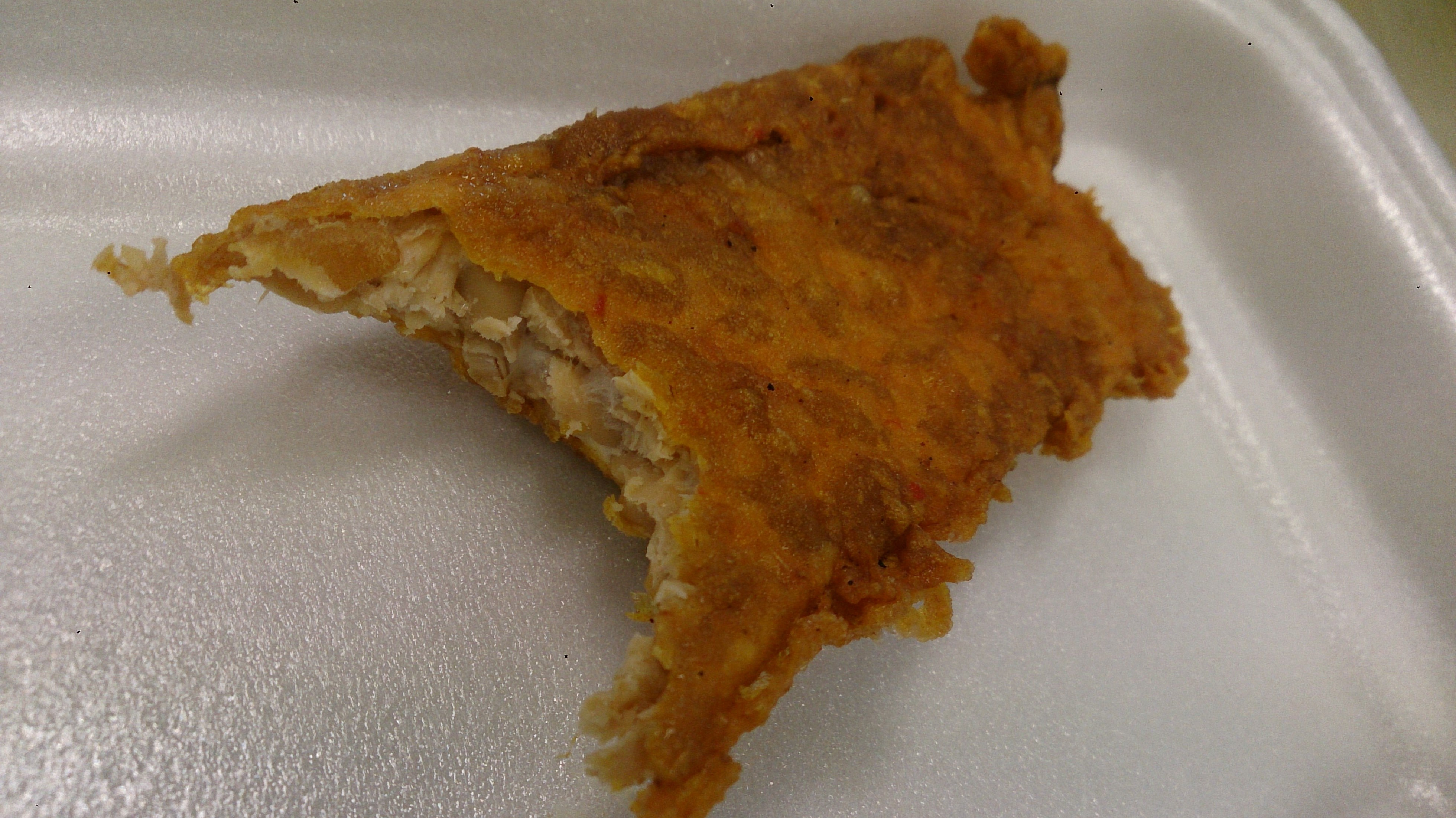 Fermented soya beans fried. Called "tempeh" in Singapore, Malaysia and Indonesia. Very nice.